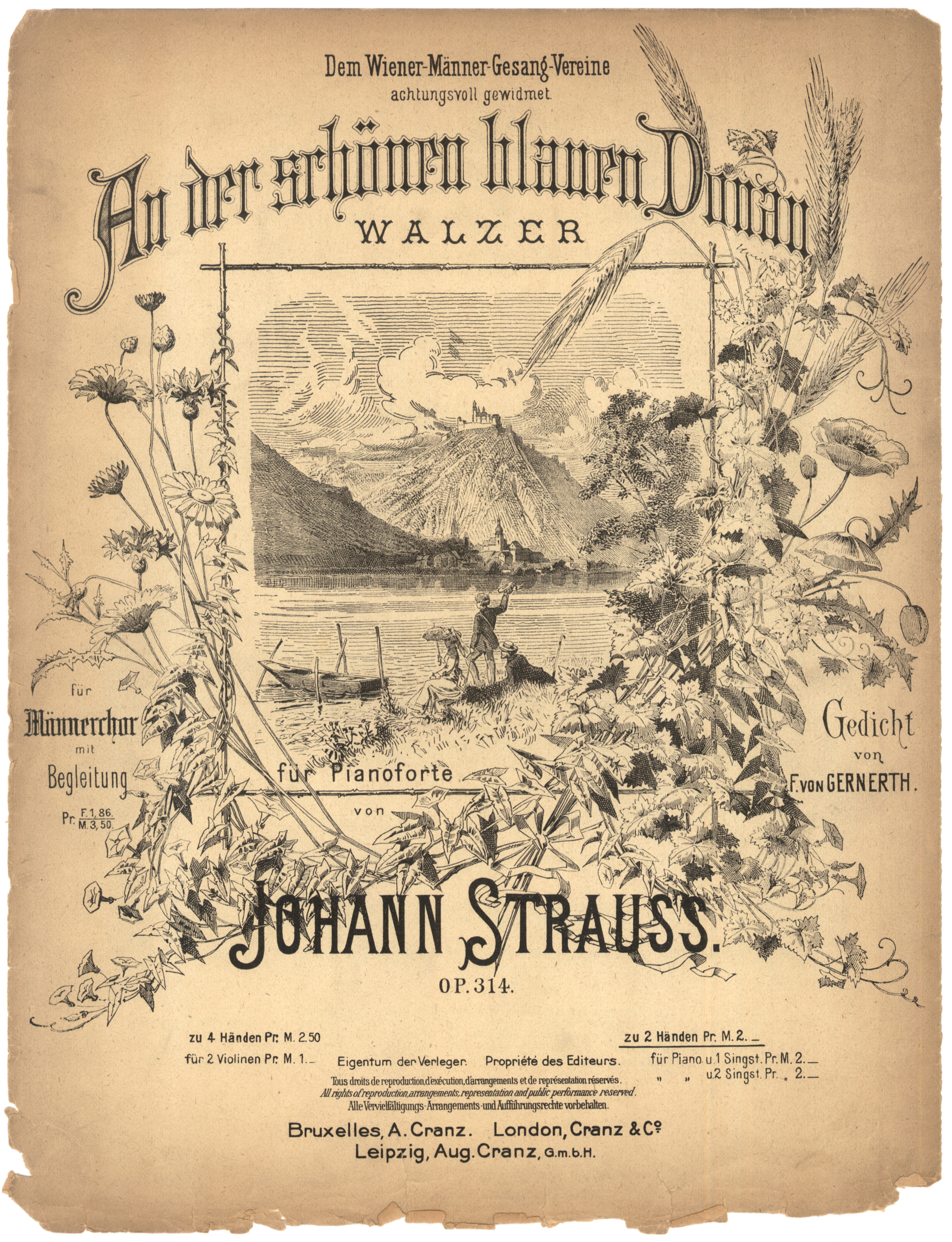 The Beautiful Blue Danube Waltz by Johann Strauss II